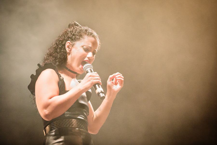 Emel Mathlouthi at the stage at Cosmopolite in Soria Moria. The concert took place on 19. October 2017. Lineup: Emel Mathlouthi (vocal), Shawn Crowder (drums) and Pier Salami (keyboard).